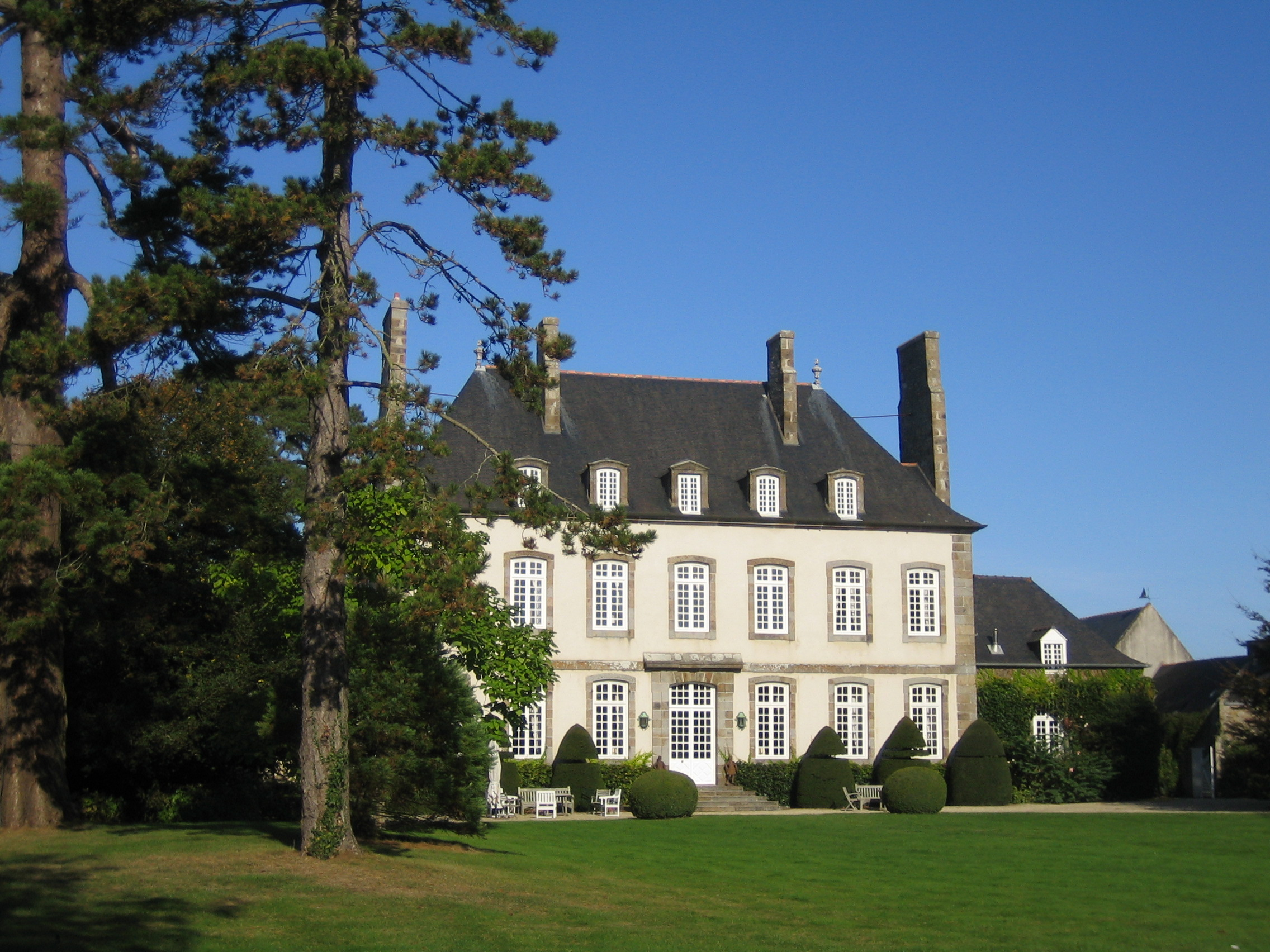 malouinière of la ville bague (photo)